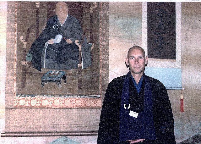 Roshi serving for a day as Abbot of both Sojiji and Eiheiji monasteries. Portrait of Dōgen behind him